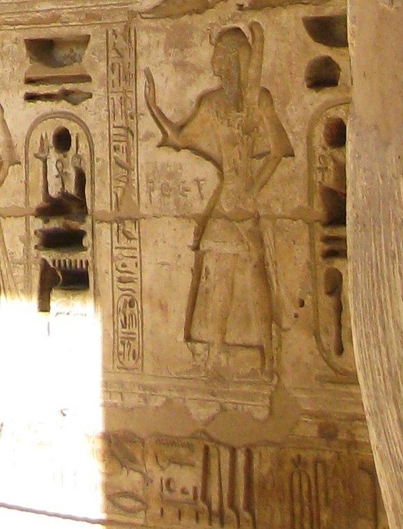 Prince Amunherkhepshef II Ramses VI - Temple of Rameses III - Medinet Habu